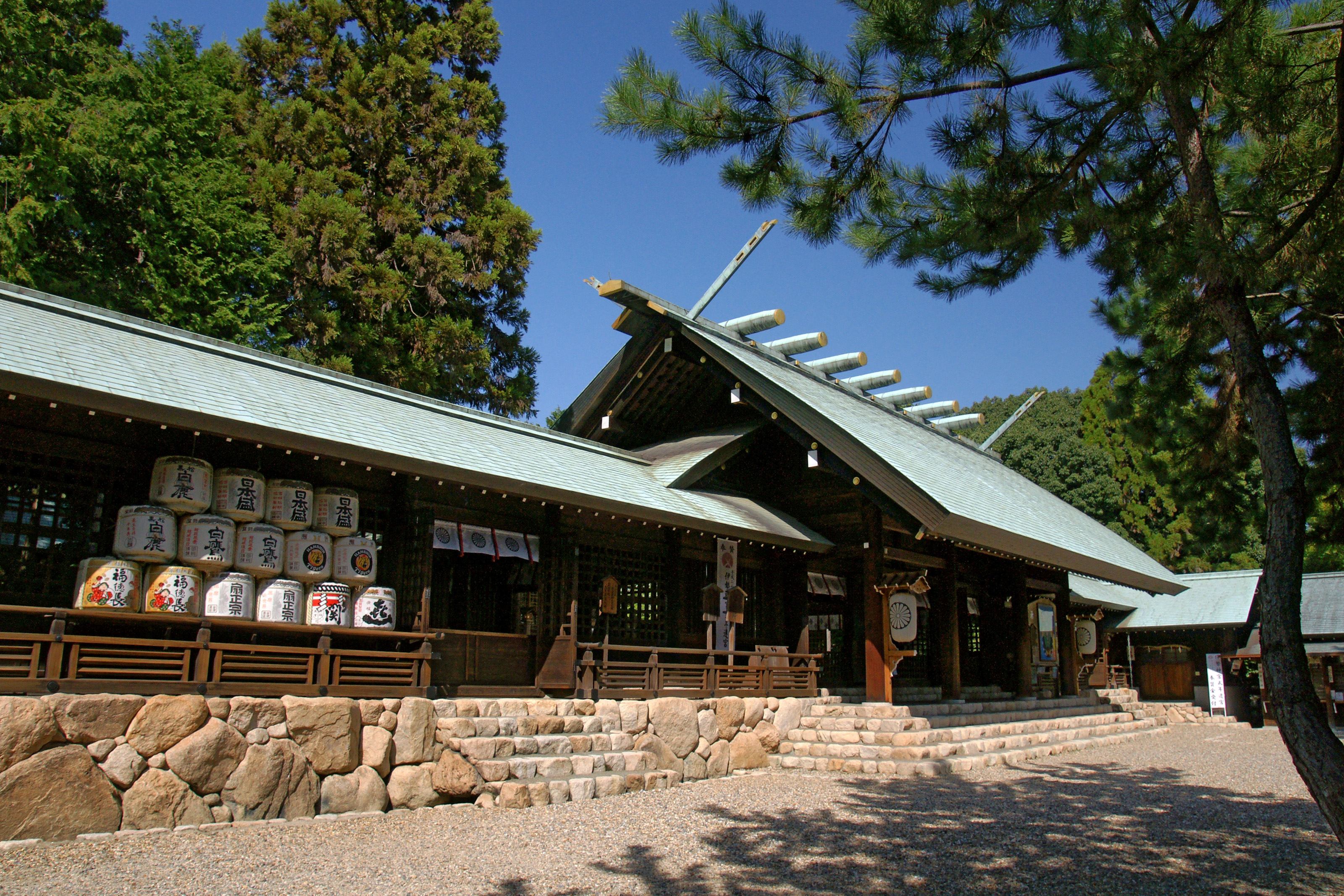 Hirota Shrine (Hirota-jinja) in Nishinomiya, Hyogo prefecture, Japan